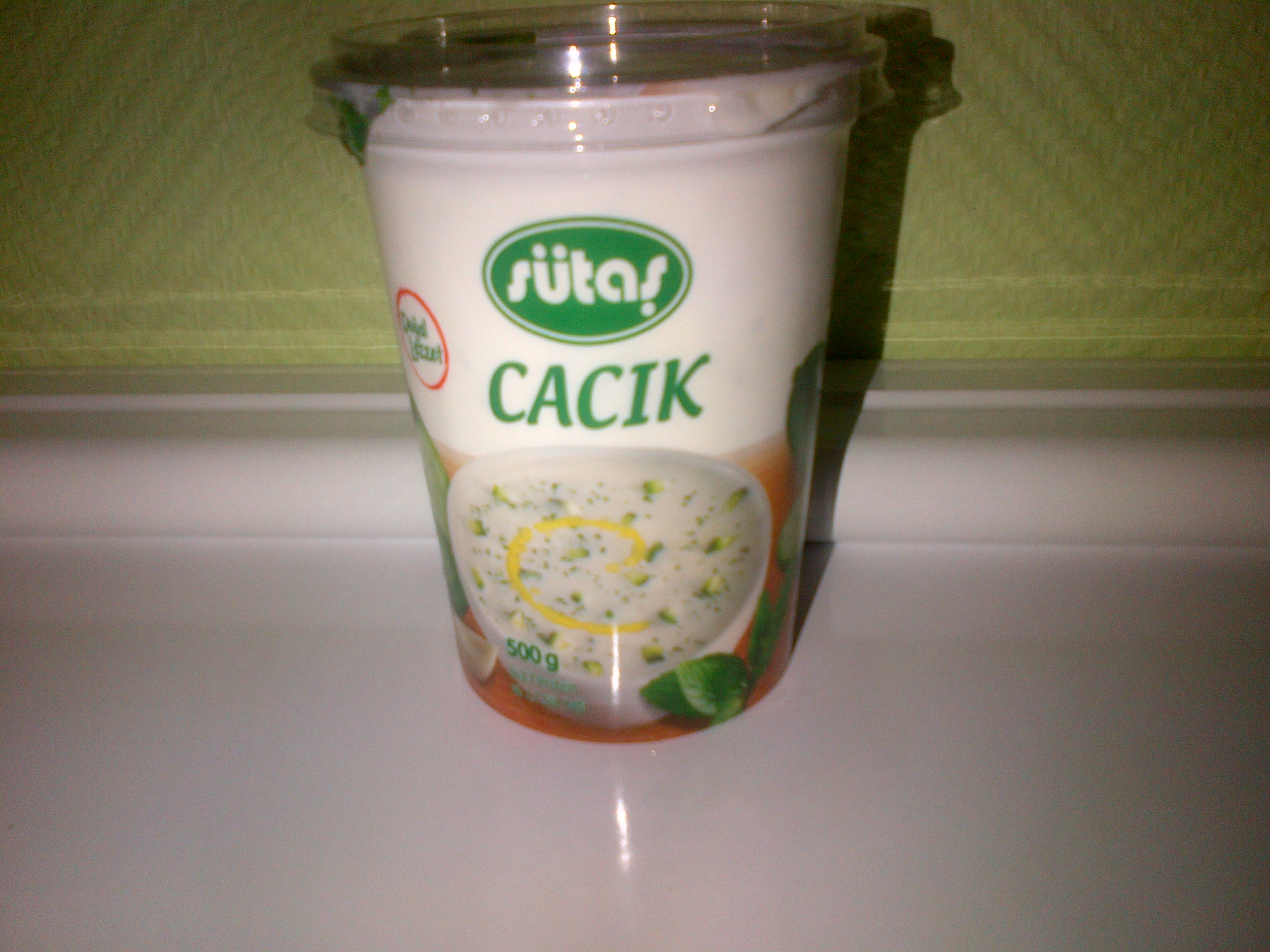 "Cacık" from the Turkish food industry.